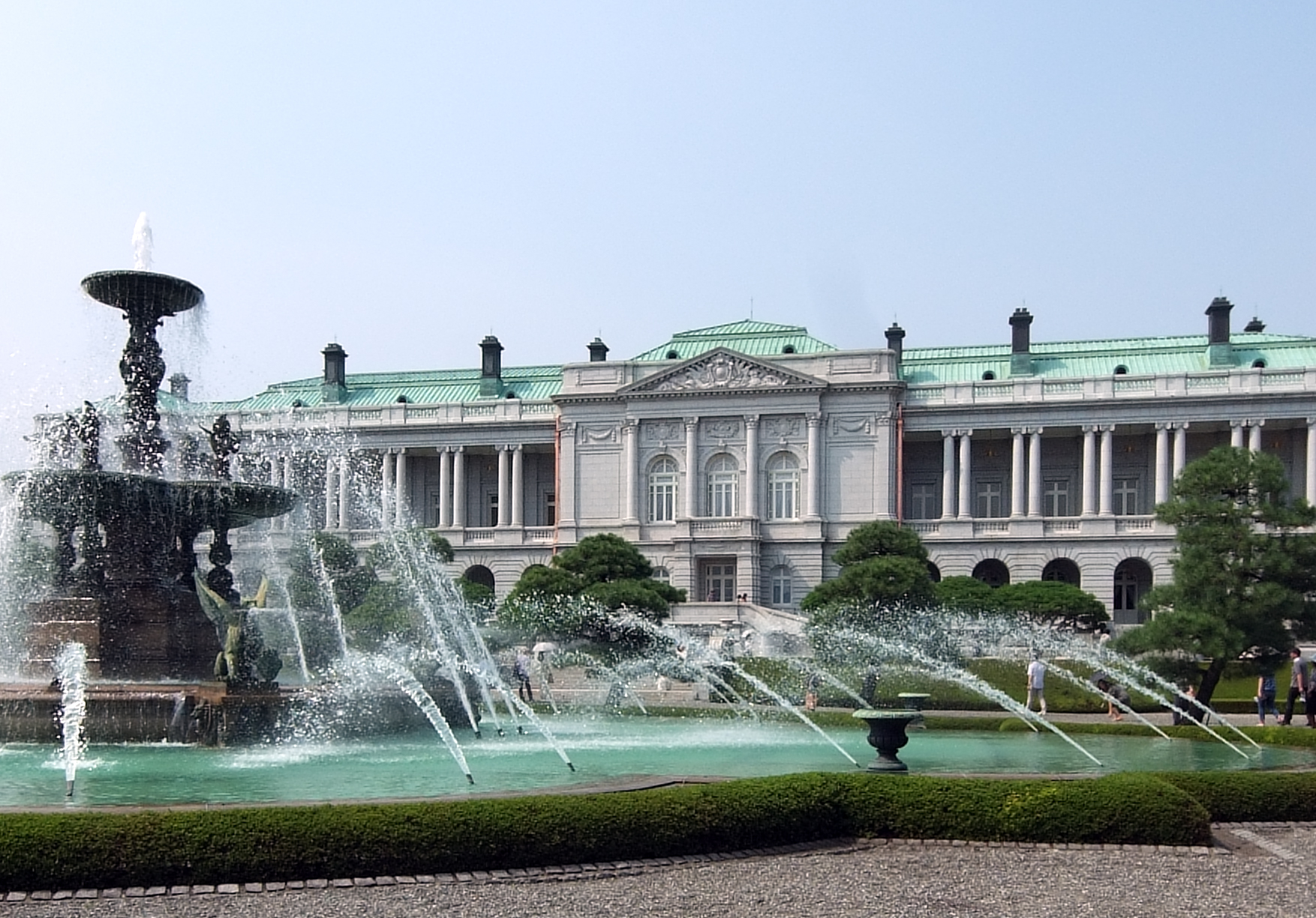 Akasaka Palace, Minato-ku Tokyo Japan, designed by Tokuma Katayama in 1909. National Treasures of Japan.